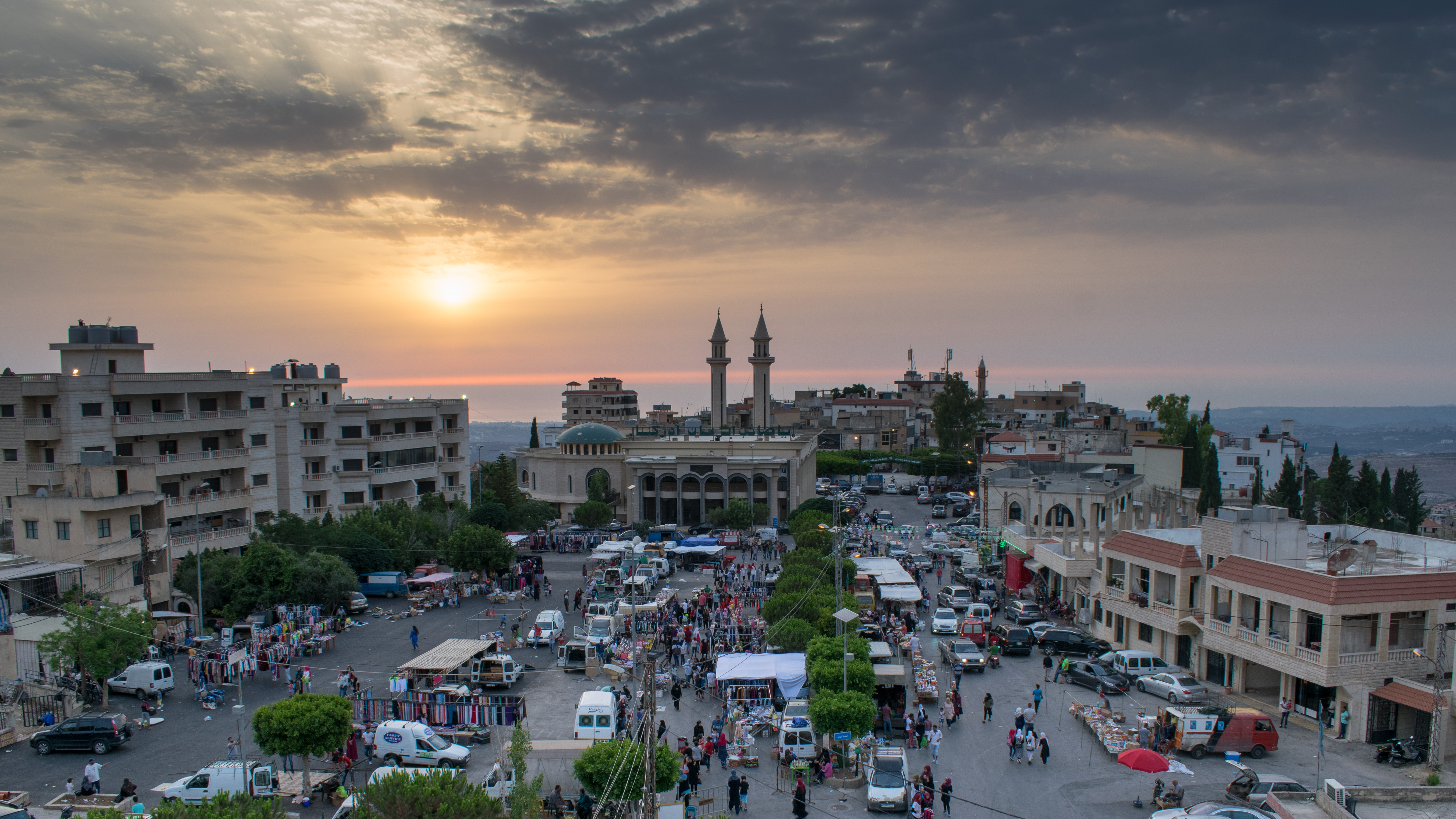 The main square of Deyrintar during the weekly market held every Tuesday. The picture was taken before sunset in July 2017. The market has mobile merchants that set up in the afternoon and leave after sunset.